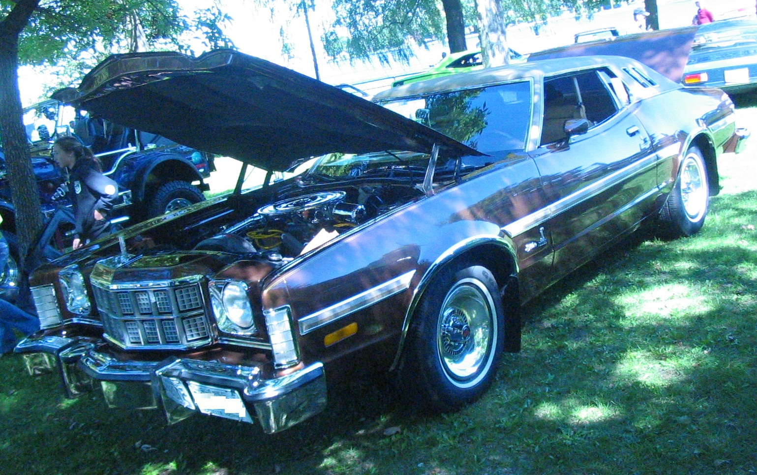 1975 Ford Elite photographed in Salaberry-De-Valleyfield, Quebec, Canada at Auto antique Salaberry-De-Valleyfield 2011.